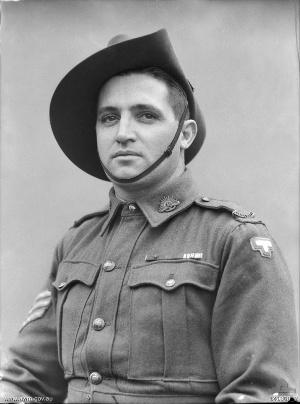 Portrait of Thomas Currie Derrick VC DCM, an Australian recipient of the Victoria Cross during the Second World War.